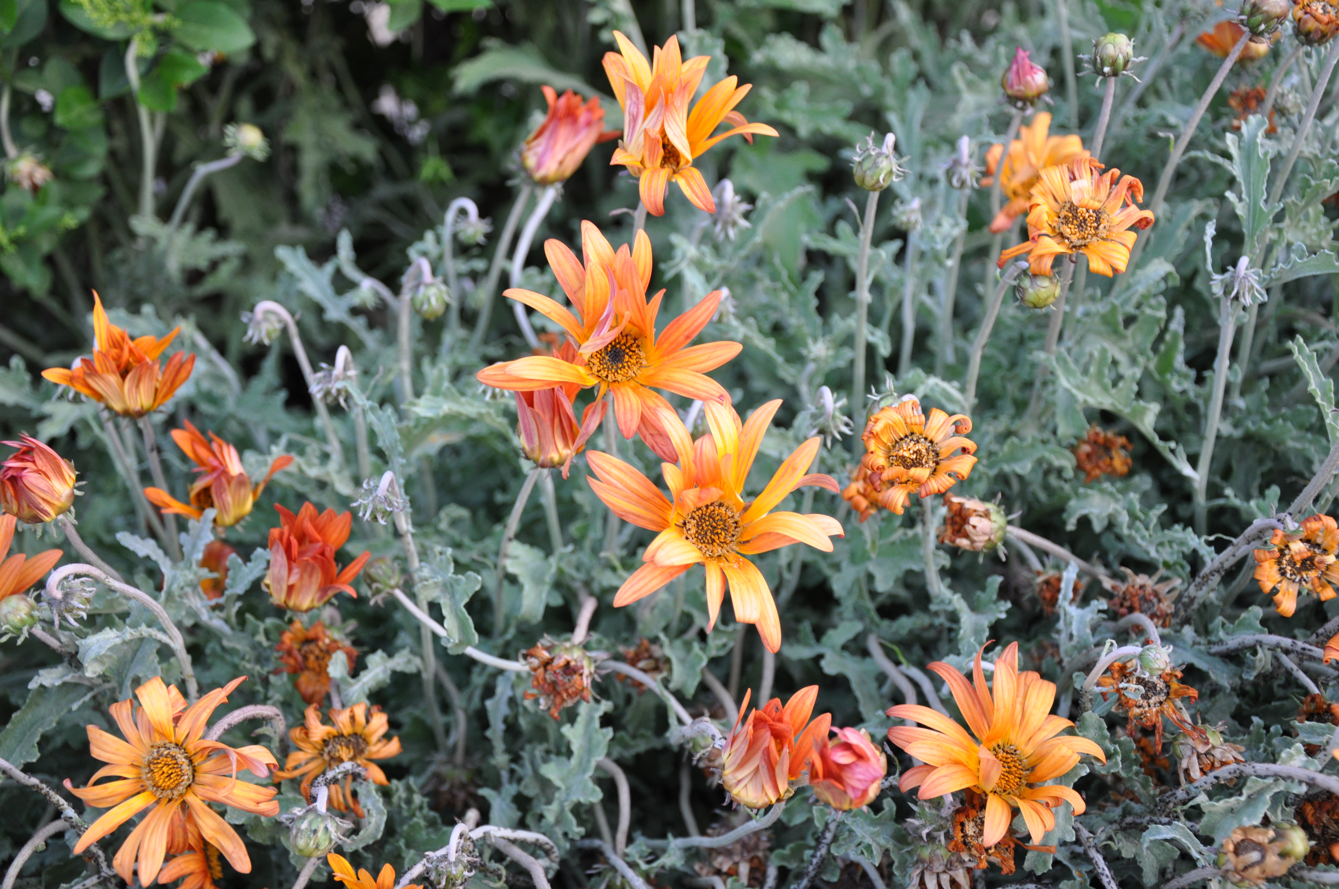 Taken in Tbilisi